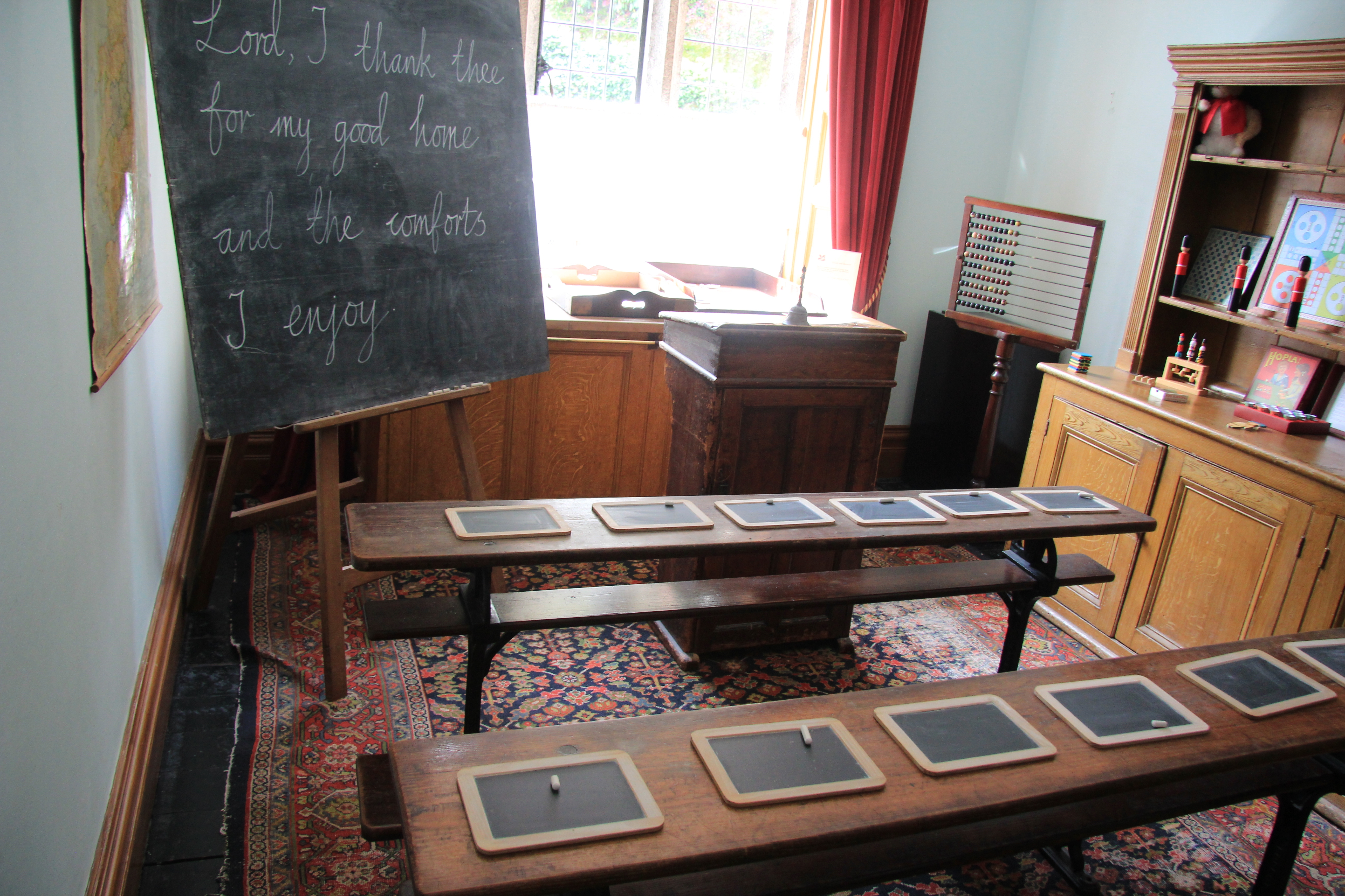 Lanhydrock House in Cornwall